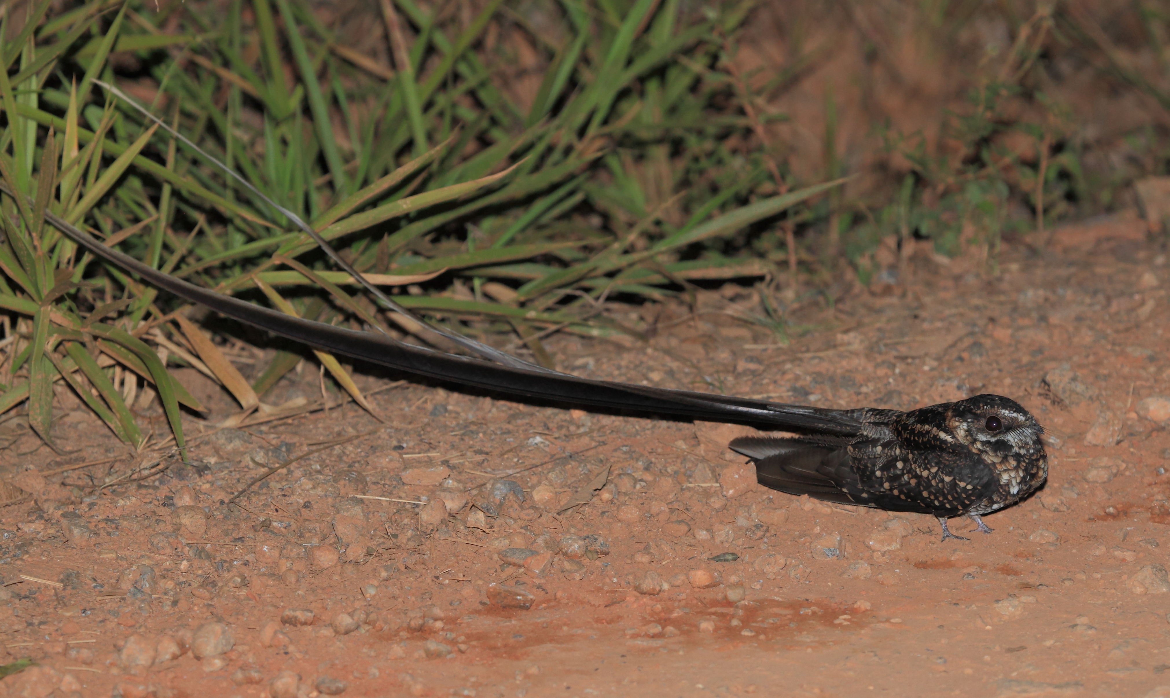 Long-trained Nightjar (male) at Tremembé - SP - Brazil